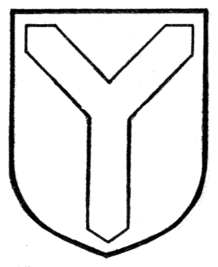 Fig. 153.—Shakefork.